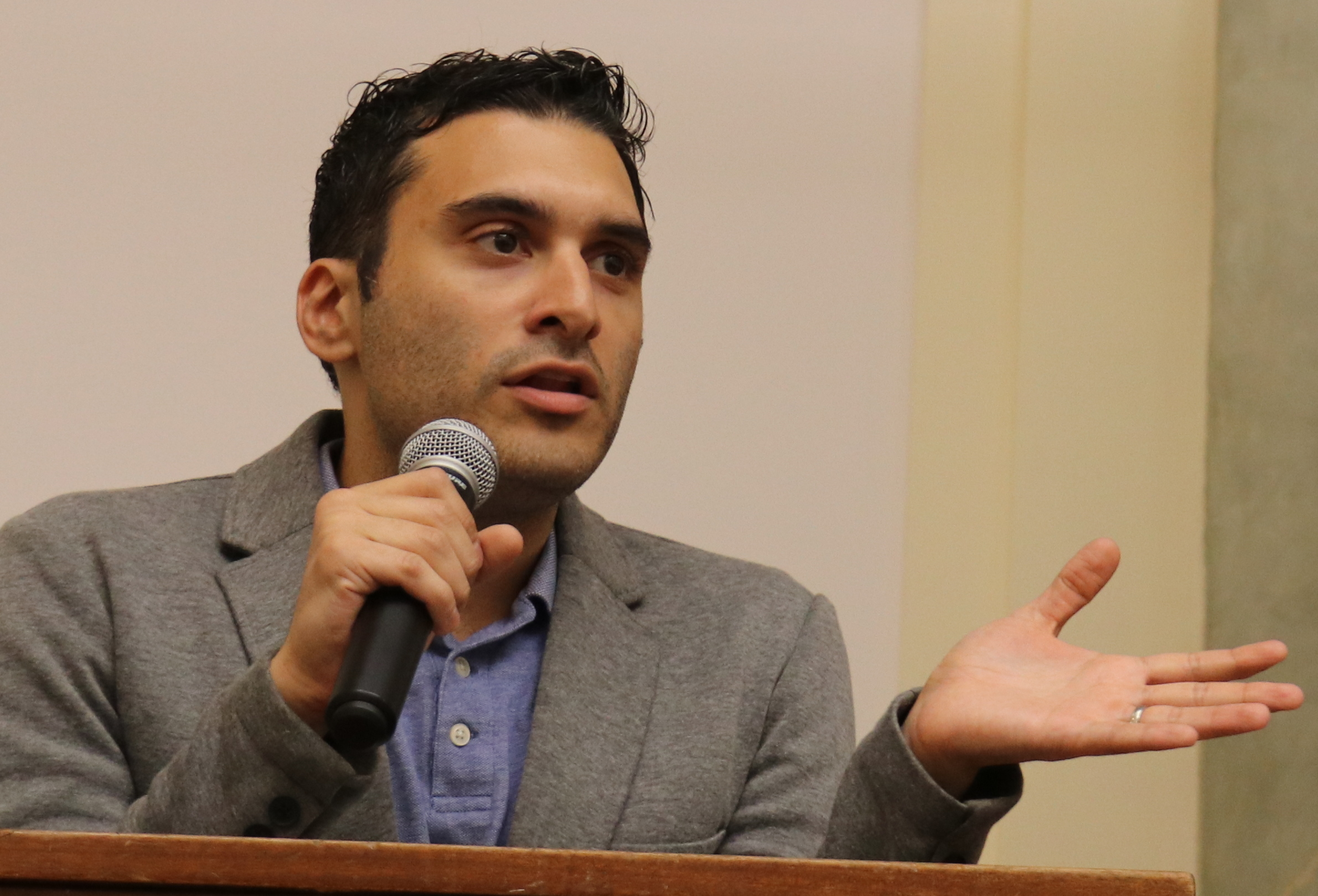 Armin Navabi, founder of Atheist Republic, speaking at the Atheist Days in Warsaw, Poland on 31 March 2019.